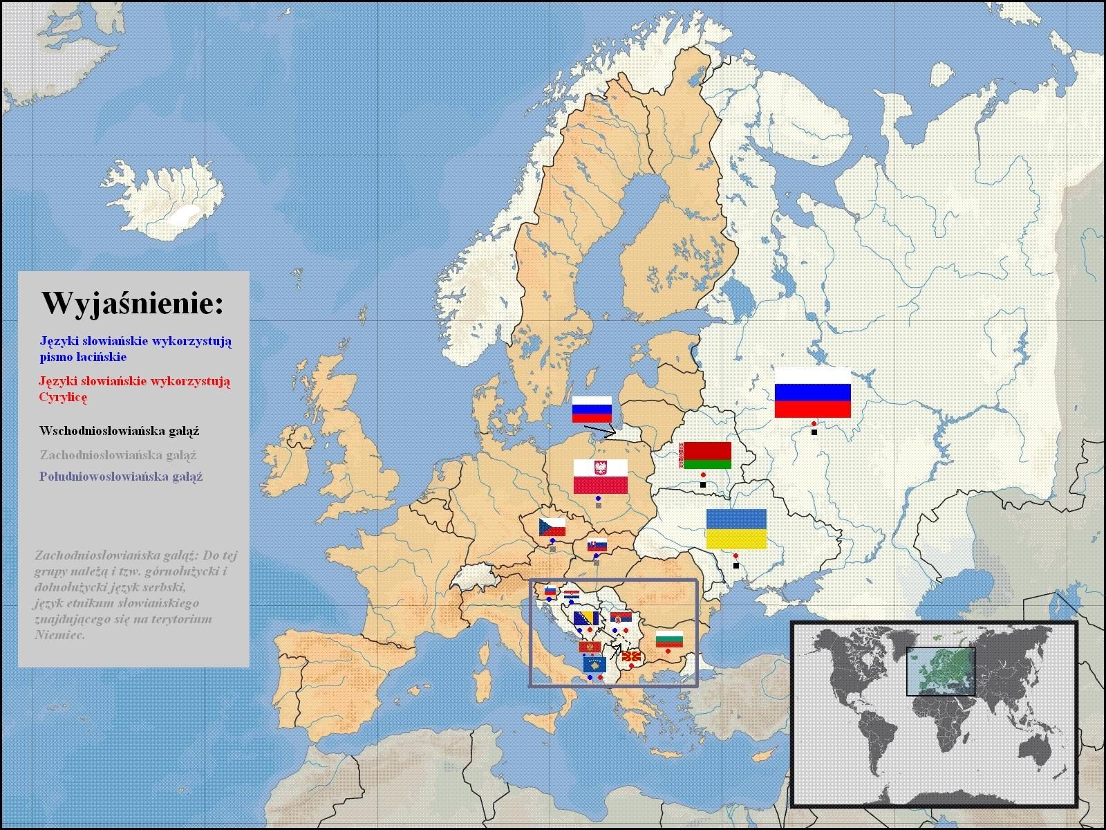 Polish editiron of this file